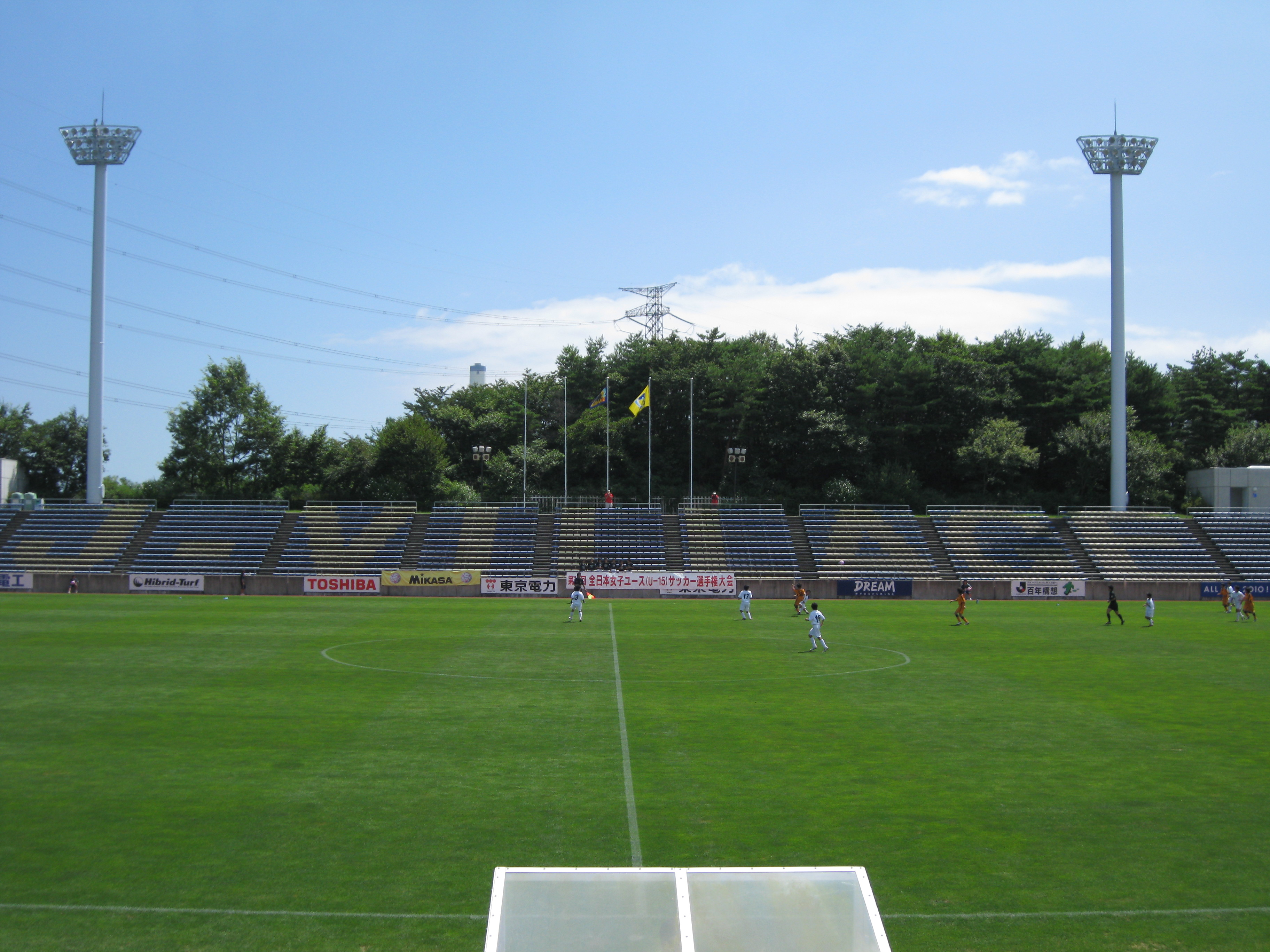 J-Village Stadium, Hirono, Fukushima